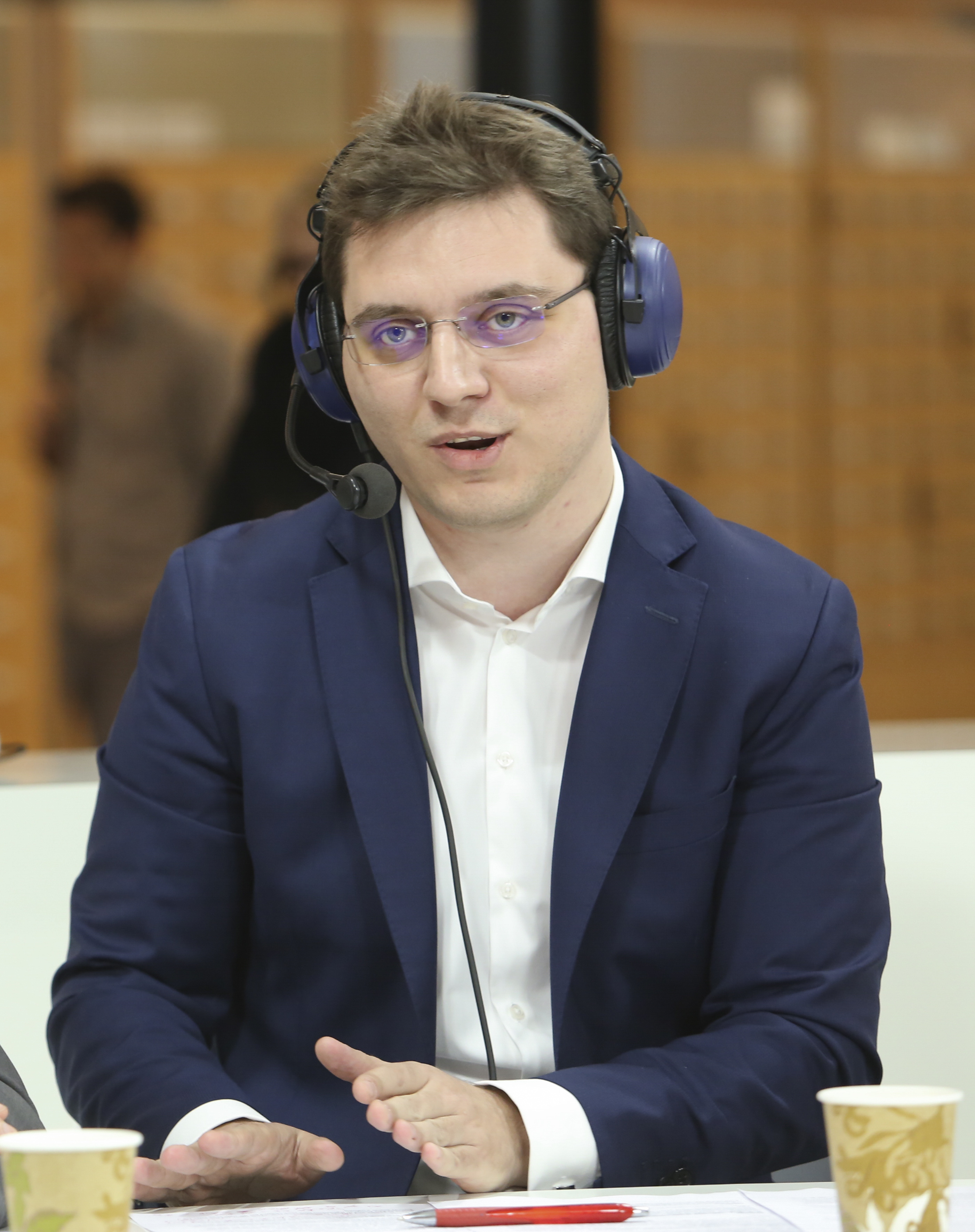 Euranet Plus, the leading radio network for EU news, hosted a Citizens’ Corner debate on the digital rights of EU citizens at the European Parliament in Brussels on January 20. The debate was jointly produced by Euranet Plus and Latvijas Radio, a member of the Euranet Plus network. The bilingual debate was moderated by journalist Artjoms Konohovs of Latvijas Radio (in Latvian) and Brian Maguire of the Euranet Plus News Agency in Brussels (in English). The debate also featured students of the Euranet Plus campus radio network from Poland (Radio Kampus, Warsaw) and Finland (Radio Moreeni, Tampere). Part 2/2 | English | moderator Brian Maguire | guests: - Catherine Stihler, MEP, United Kingdom, Group of the Progressive Alliance of Socialists and Democrats in the European Parliament, Vice-Chair of the Committee on the Internal Market and Consumer Protection, @C_Stihler_MEP - Victor Negrescu, MEP, Romania, Group of the Progressive Alliance of Socialists and Democrats in the European Parliament, @negrescuvictor - Sabine Verheyen, MEP, Germany, Group of the European People’s Party (Christian Democrats) in the European Parliament, @sabineverheyen - Mina Andreeva, Deputy Chief Spokesperson of the European Commission, in charge of Digital Single Market, @Mina_Andreeva - Joe McNamee, Executive Director EDRi (European Digital Rights), @edri_org Get all the details and the video as well as audio recordings on our dedicated web page at